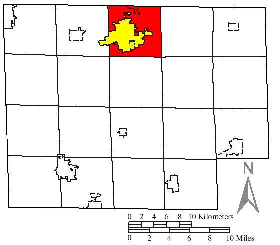 Made by the US Census and modified by myself